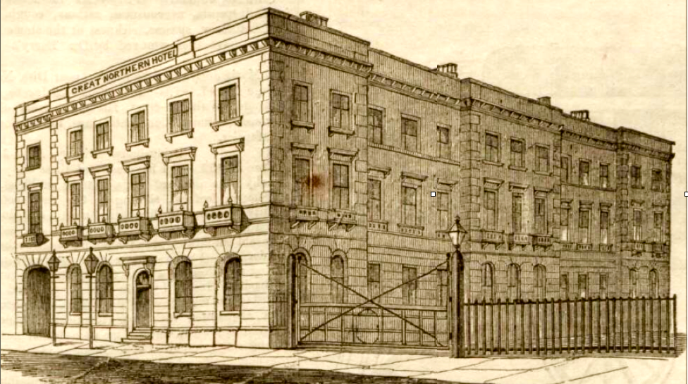 Great Northern Hotel, High Street, Lincoln. 177 High Street (west side), Lincoln 1848 but formerly ‘’ The Black Boy’’. By Henry Goddard, demolished c.1959. Behind, facing the railway was 13 bay range Pevsner N & Harris J, (1964), The Buildings of England: Lincolnshire, pg 162. On the opposite side of the street was the Great Northern Vaults, also by Goddard.